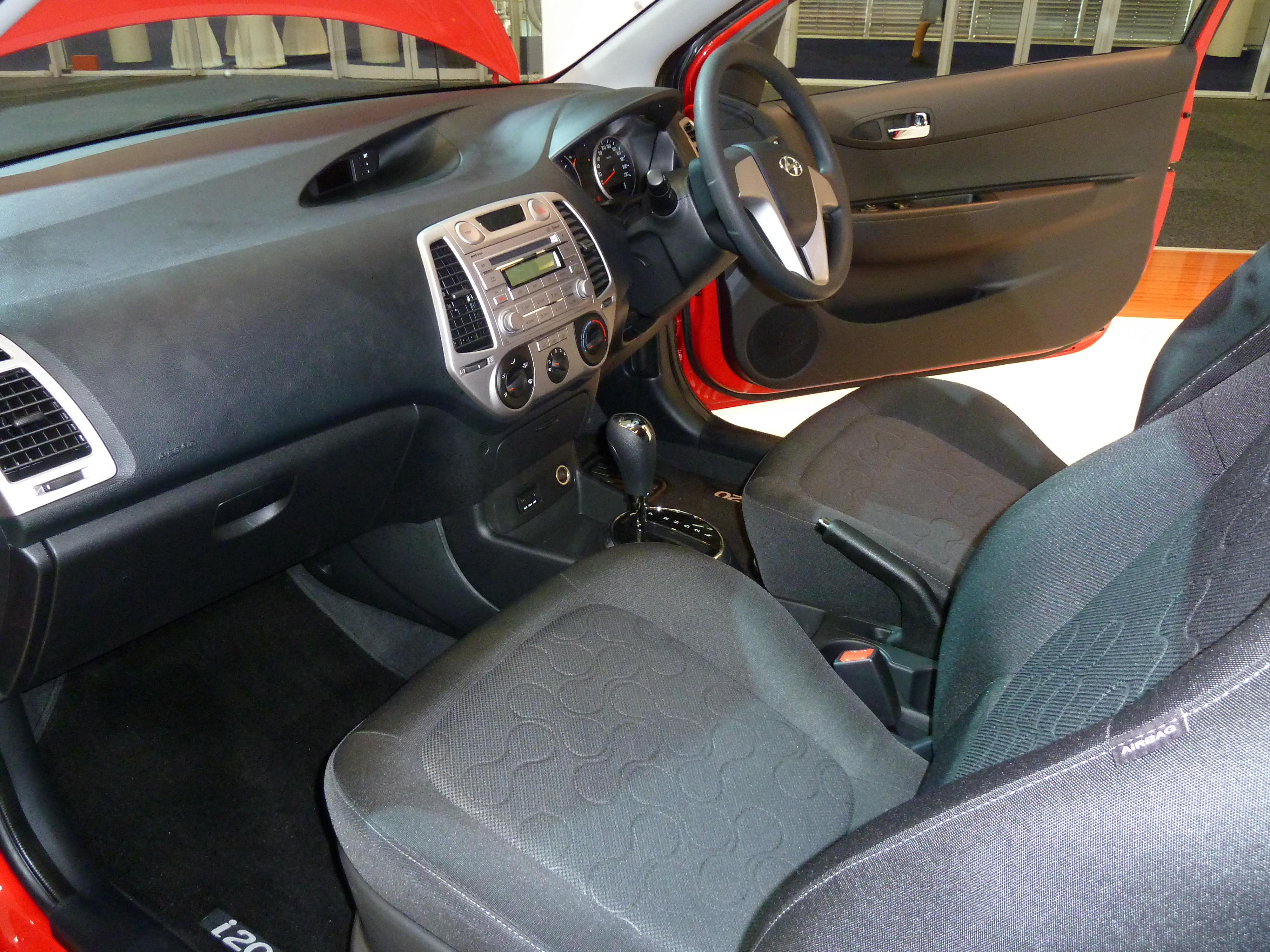 2010 Hyundai i20 (PB) Active 3-door hatchback. Photographed at the 2010 Australian International Motor Show, Sydney, New South Wales, Australia.